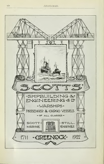 Advertisement for Scotts Shipbuilding and Engineering Company in Brassey's Naval Annual 1923.